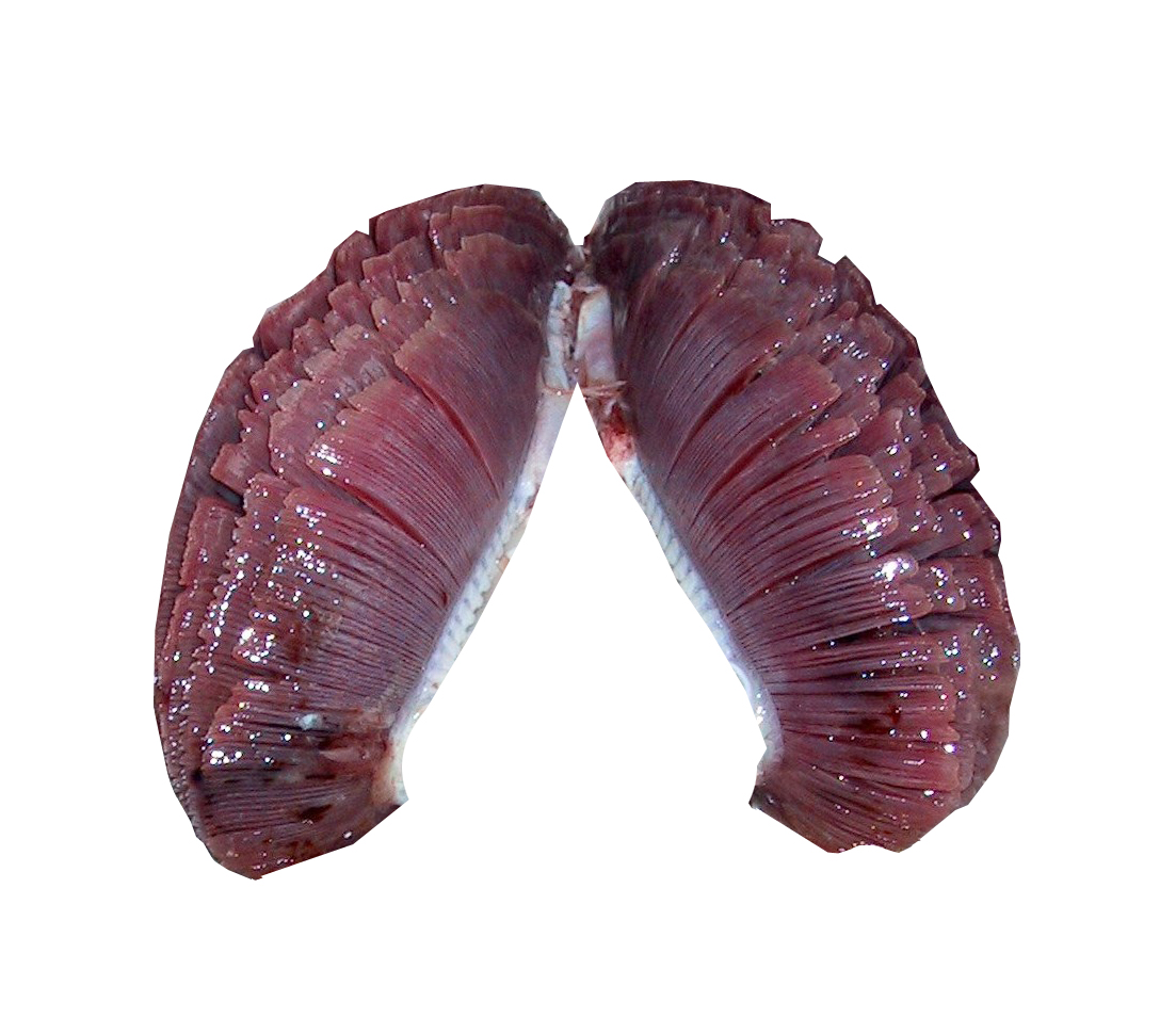 Tuna gills inside of the head. The fish head is lying on its back, the view is towards the mouth.